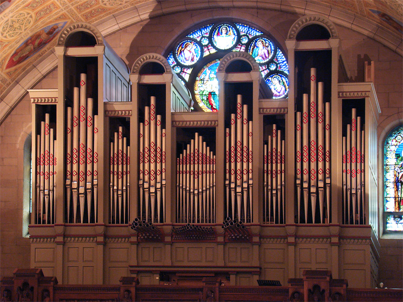 Church of Saint Leon, Westmount, Montreal region, Quebec, Canada. The Guilbault-Thérien organ (1995).